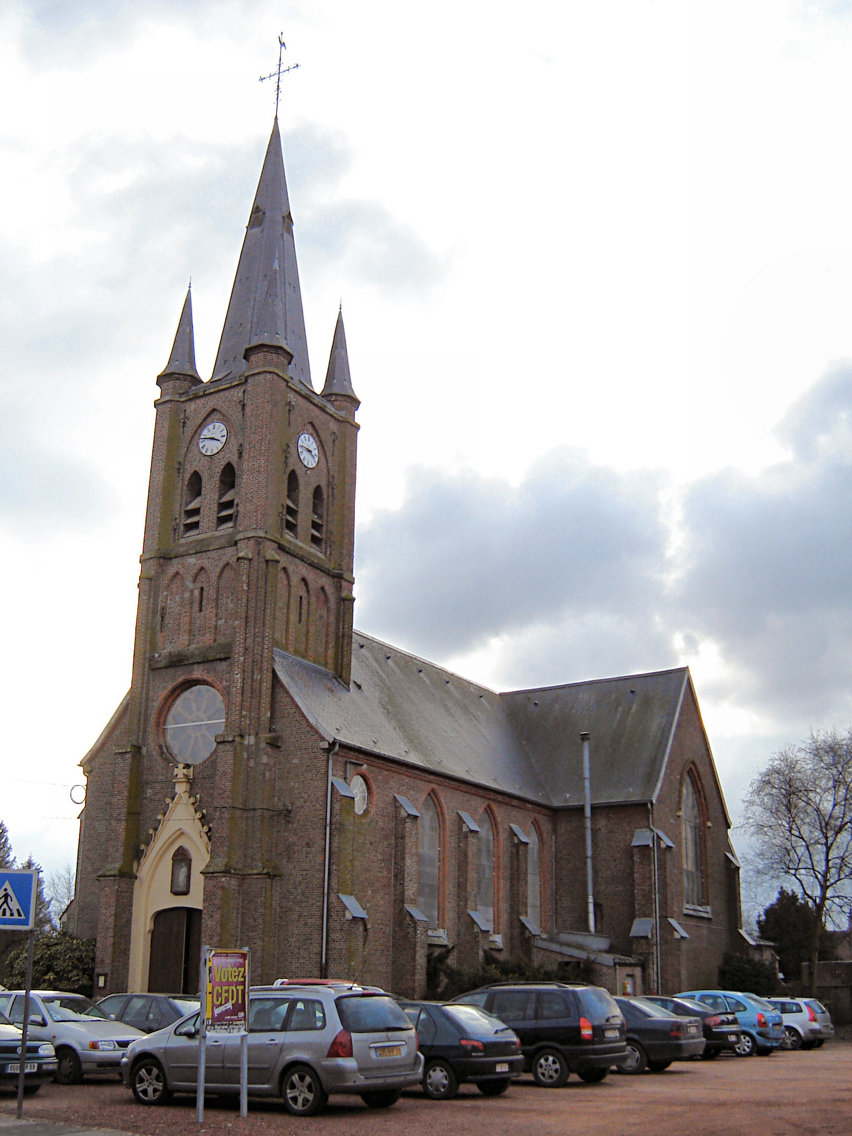 Church of Saint Margaret in Sainte-Marguerite, Comines. Comines, Nord, Nord-Pas-de-Calais, France